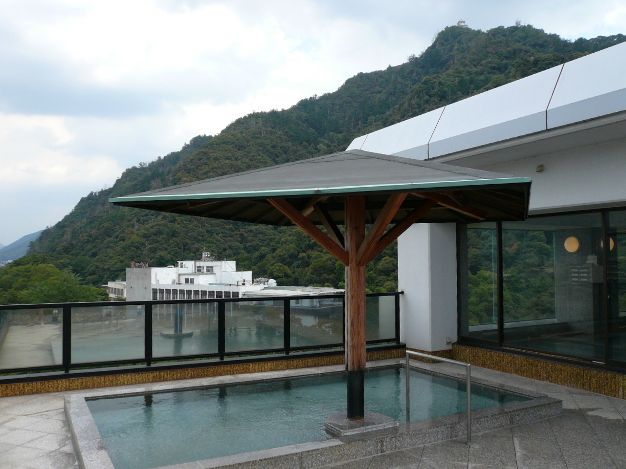 A picture of the rotenburo at Hotel Park in Gifu, Gifu Prefecture, Japan.